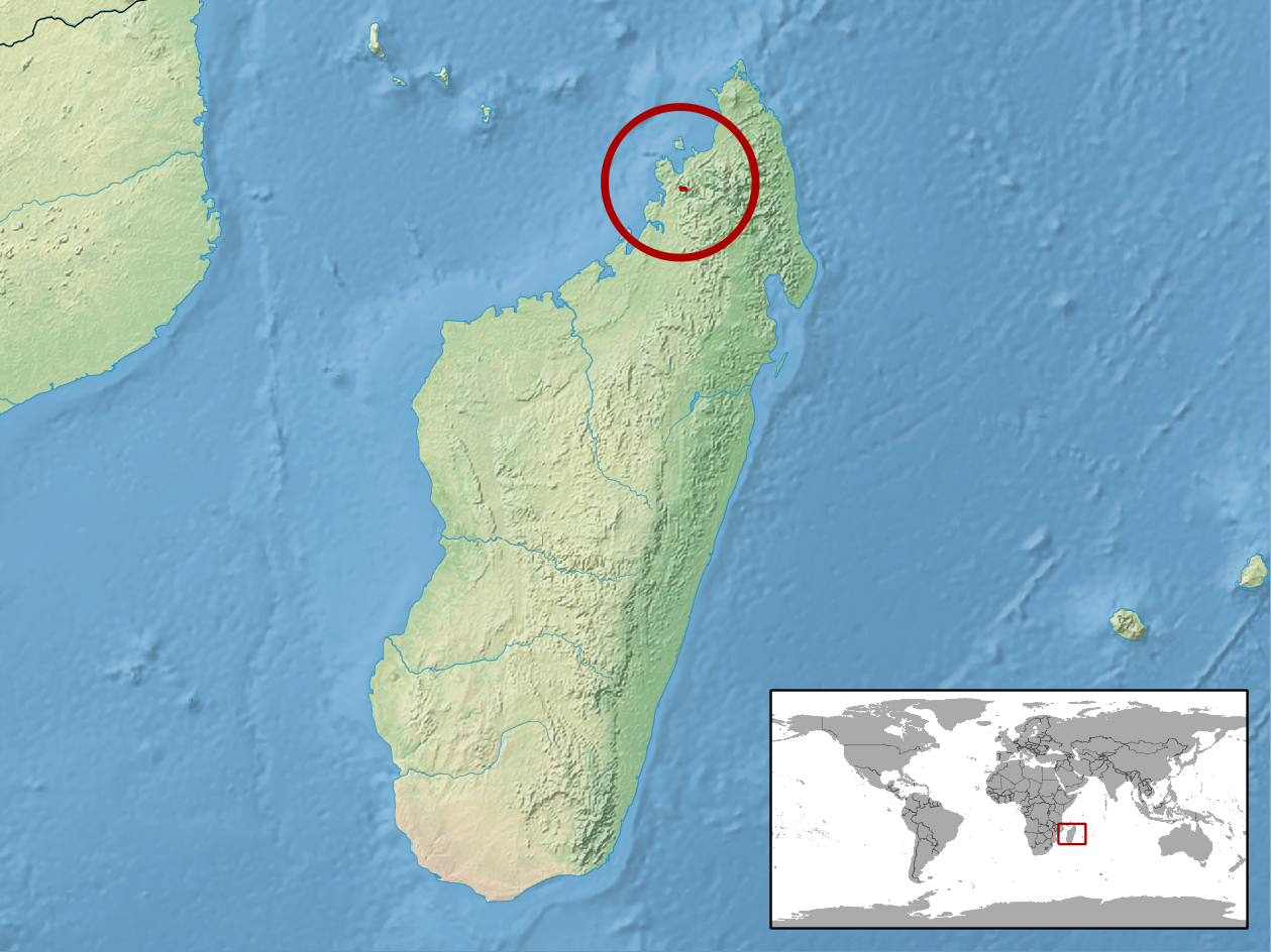 geographic distribution of Brookesia bekolosy (Native: Madagascar)